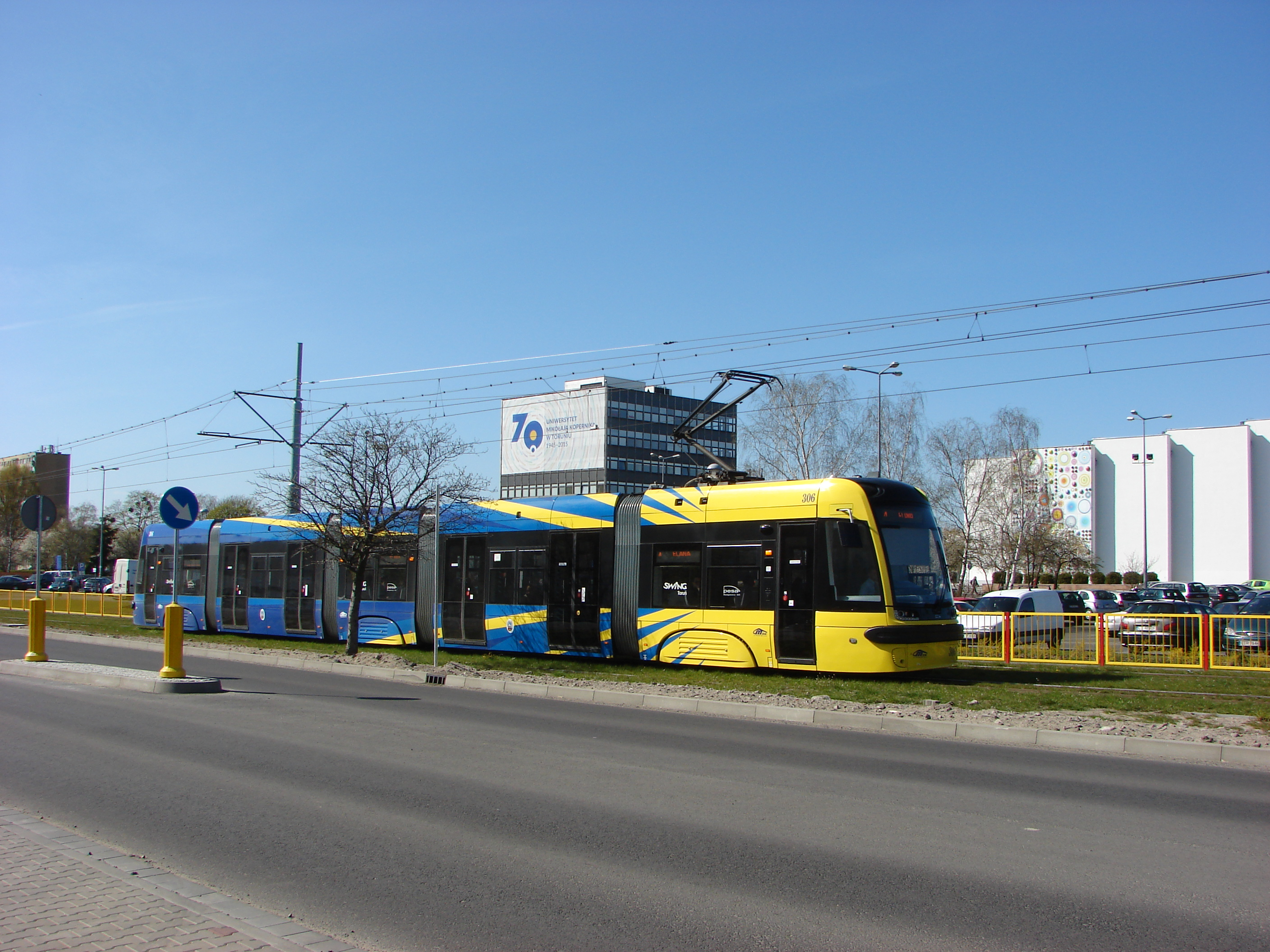 Trams in Toruń. Pesa Swing 122 NbT. Apr. 2015